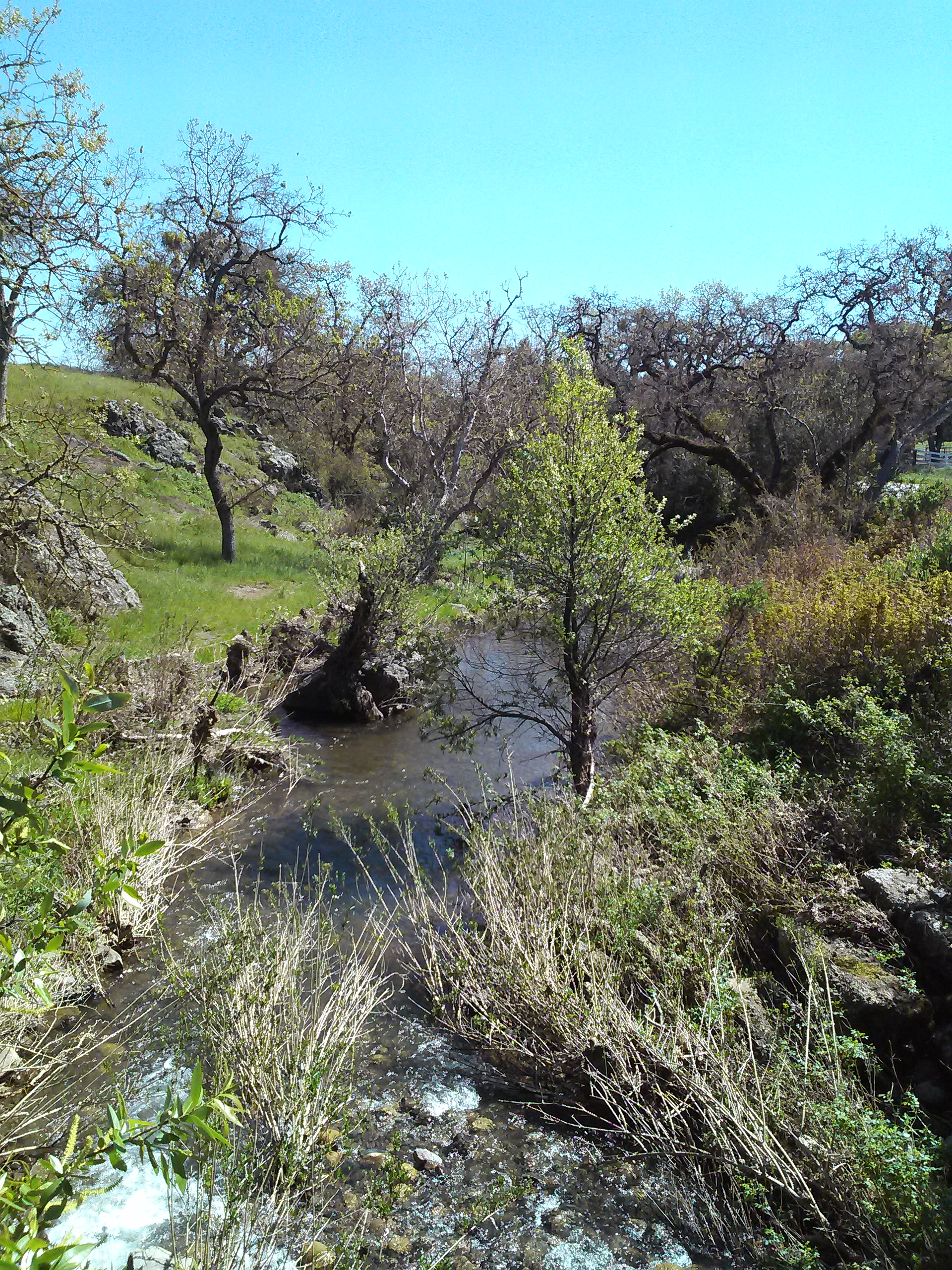 View of Little Uvas Creek near a bridge on Uvas Road in Llagas-Uvas, California, March 2017